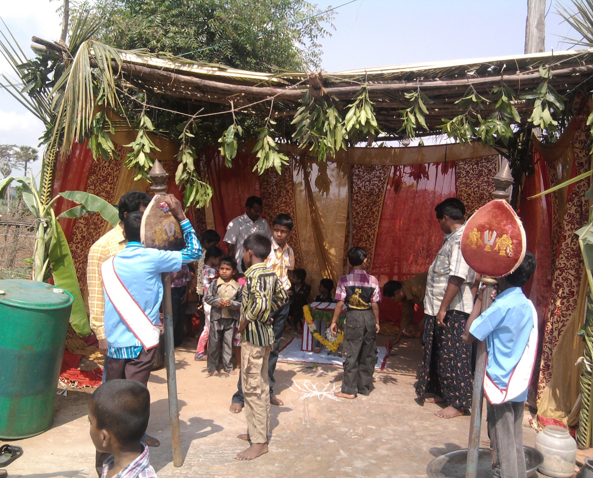 chalava pandhiri